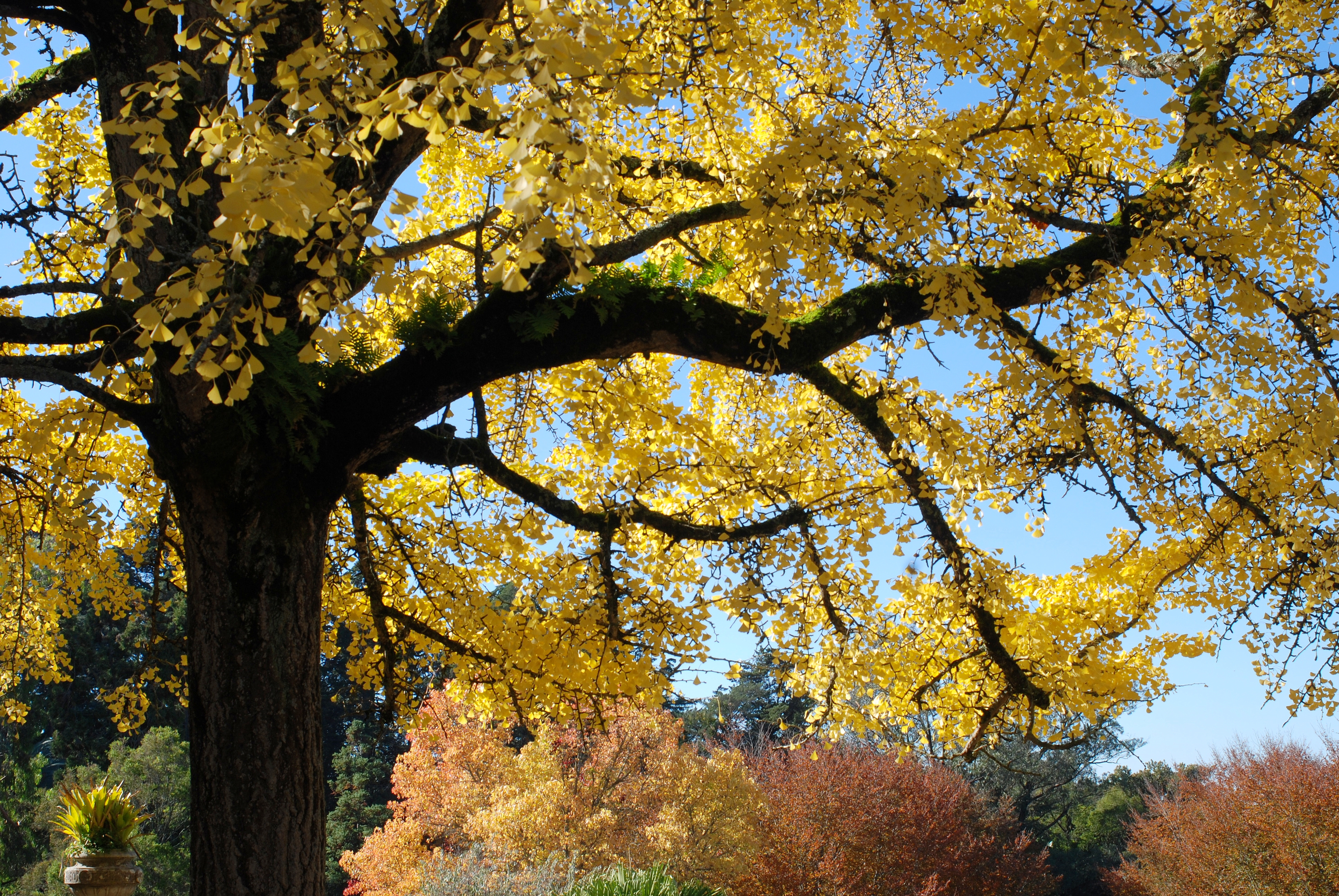 View of the Botanical Garden of Coimbra, Portugal. The tree in the foreground is a Ginkgo biloba